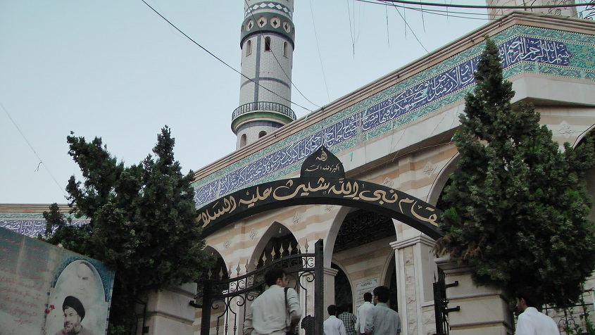 Seth Prophet Shrine in Seth Prophet Town in Baalbek